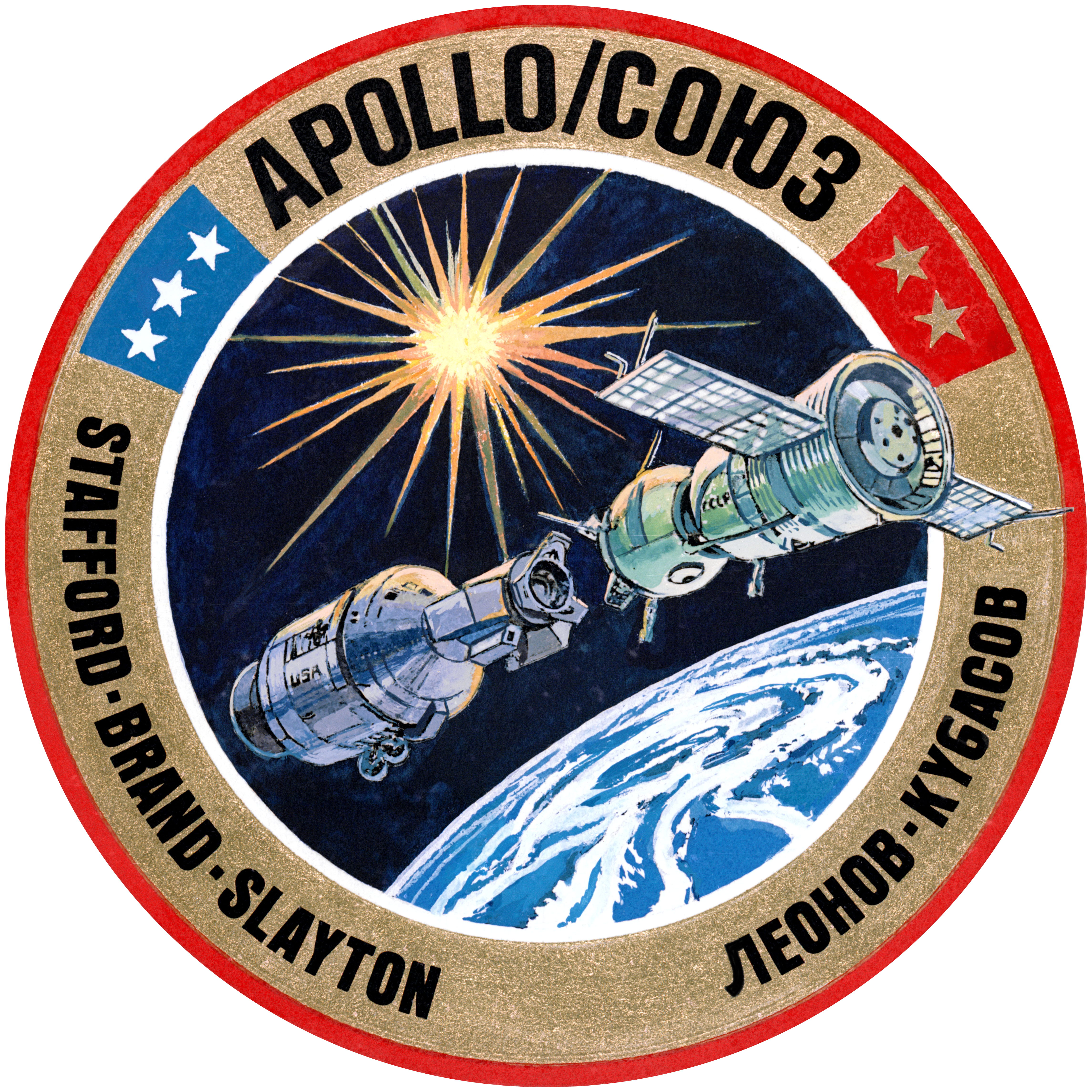 This is the American crew insignia of the joint United States-USSR Apollo-Soyuz Test Project (ASTP). Of circular design, the insignia has a colorful border area, outlined in red, with the names of the five crew members and the words Apollo in English and Soyuz in Russian around an artist's concept of the Apollo and Soyuz spacecraft about to dock in Earth orbit. The bright sun and the blue and white Earth are in the background. The white stars on the blue background represent American astronauts Thomas P. Stafford, commander; Vance D. Brand, command module pilot; and Donald (Deke) K. Slayton, docking module pilot. The dark gold stars on the red background represent Soviet cosmonauts Aleksey A. Leonov, commander, and Valeriy N. Kubasov, engineer.